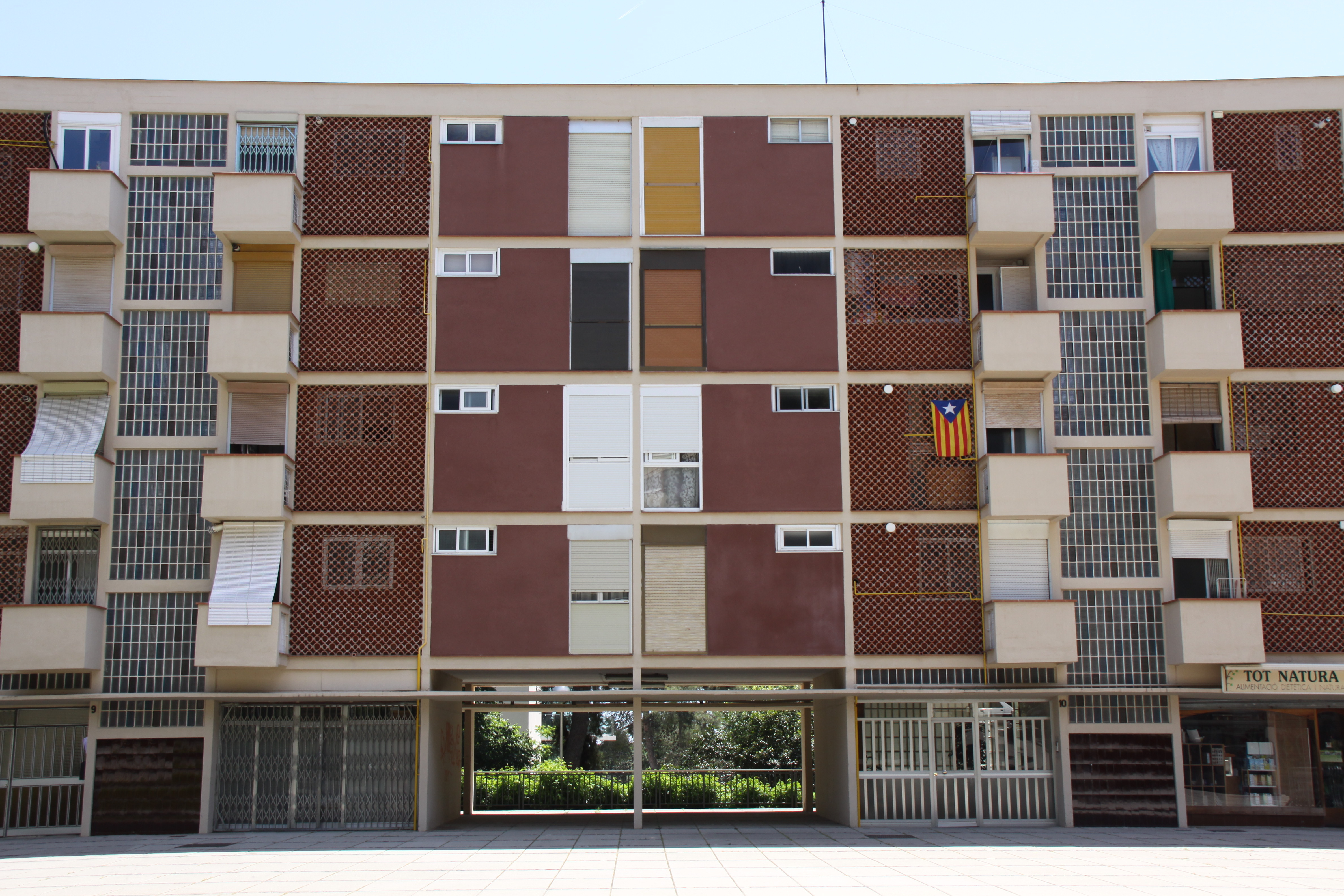 Building in Montbau quarter in Barcelona (1957-68), by architects Giráldez, López Íñigo and Subías.